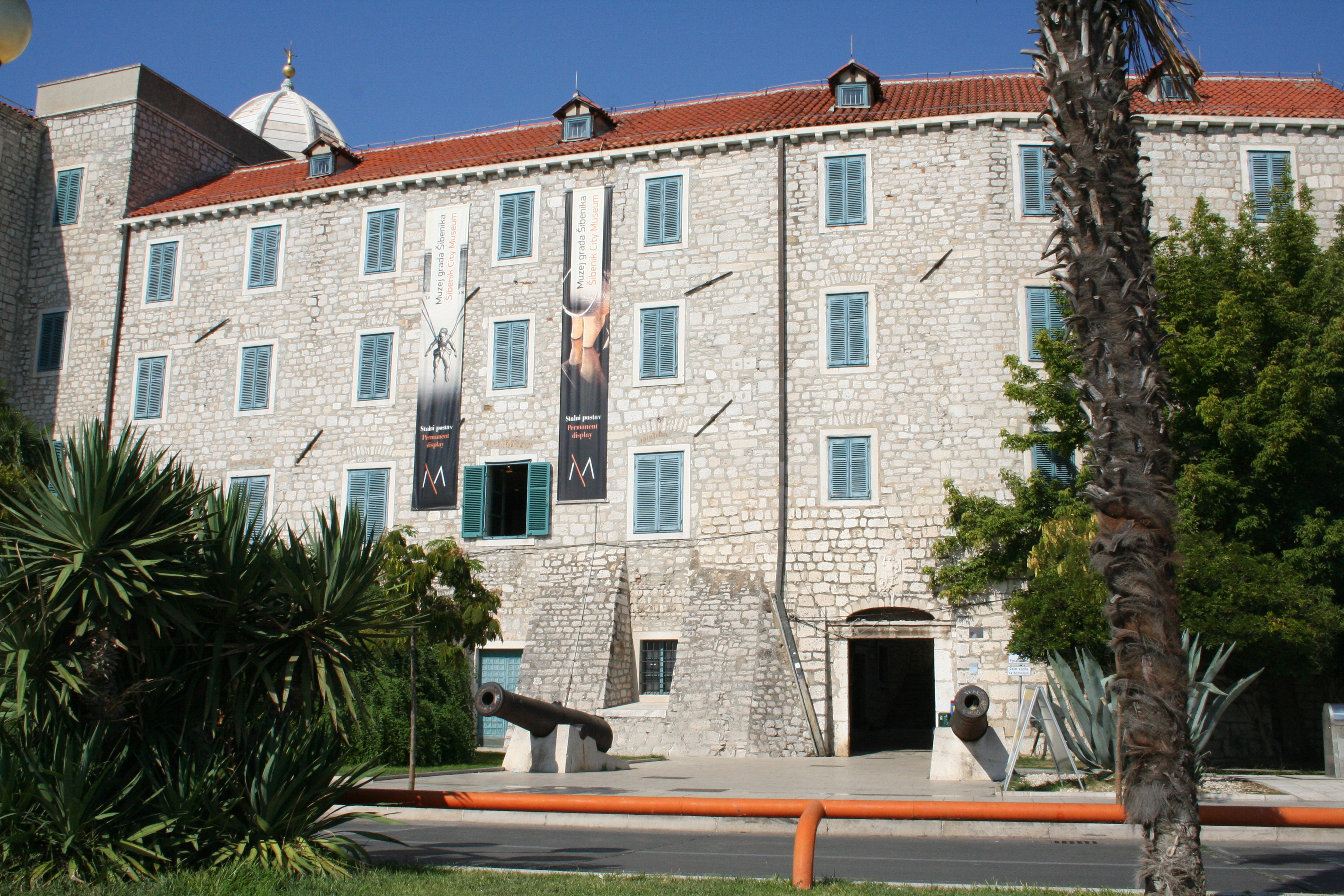 The central part of the Duke's Palace in Šibenik in August 2017.